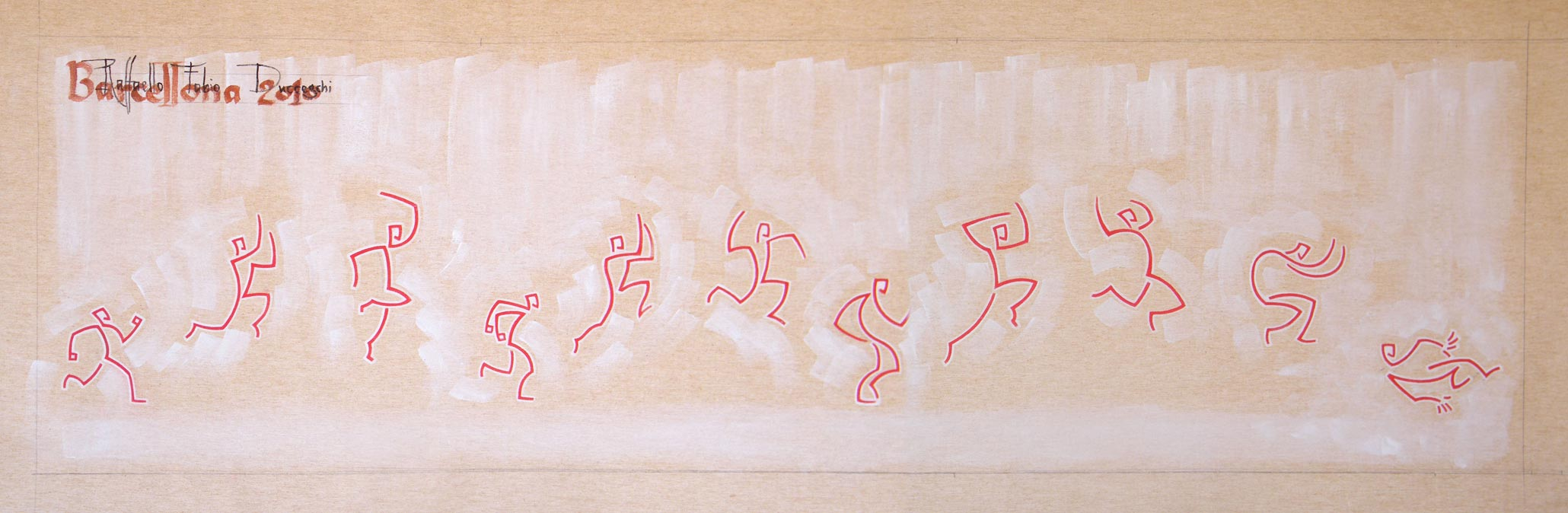 triple jump - track and field, painting of Raffaello Fabio Ducceschi; acrylic on canvas